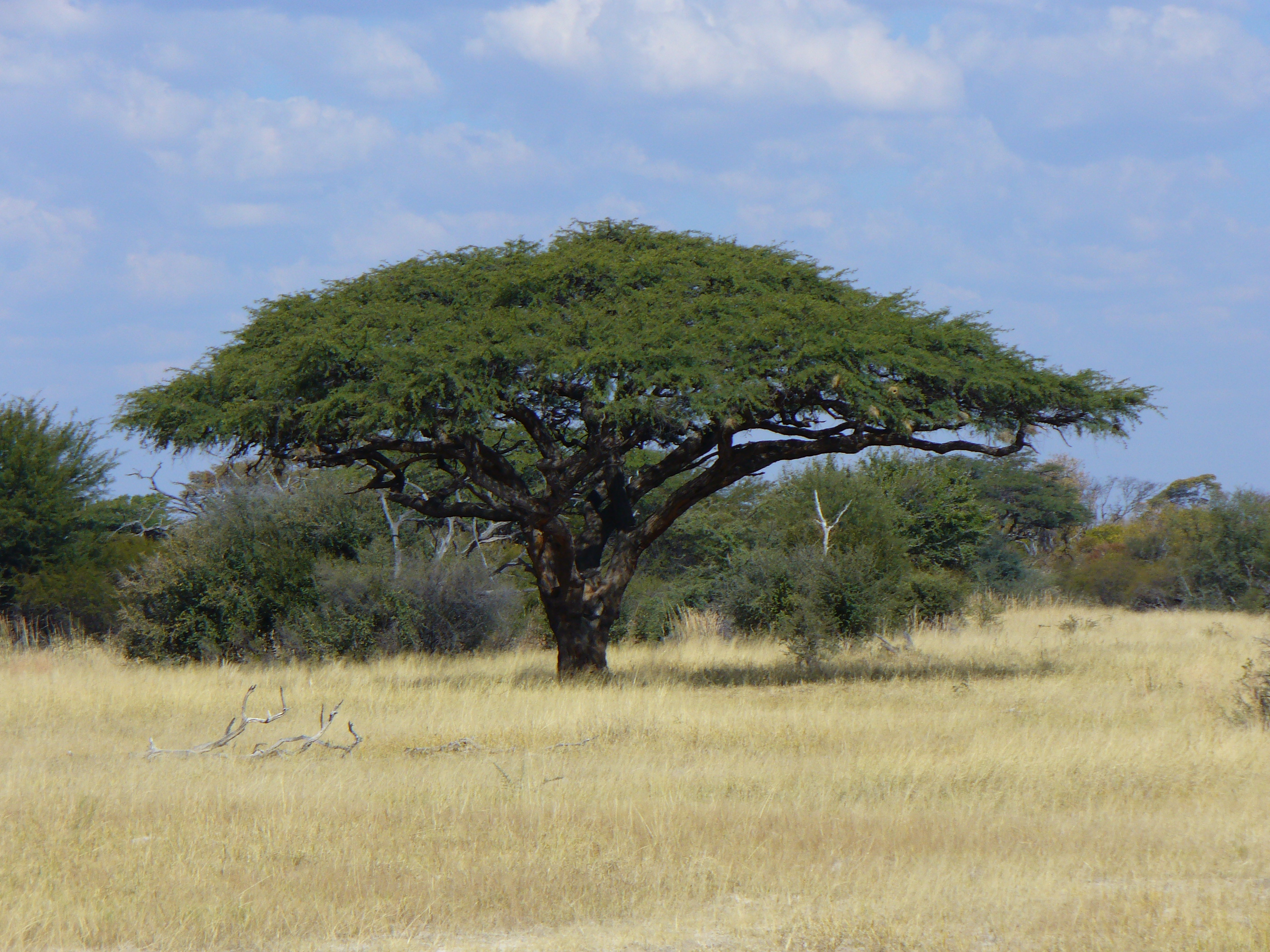 A Camel thorn tree with Sparrow-Weaver nests near the Botswanan border at Tshelanyemba village in south-western Zimbabwe.